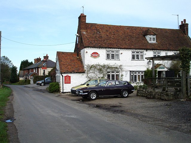 The Pepperbox, Fairbourne Heath. A pub with a long-held reputation for good food. Standing on the edge of the greensand ridge in the SE corner of the square.